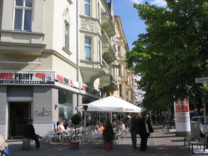 Nearby Winterfeldtplatz (place) in Berlin-Schöneberg, Germany. Corner Nollendorf-/Maaßenstraße.